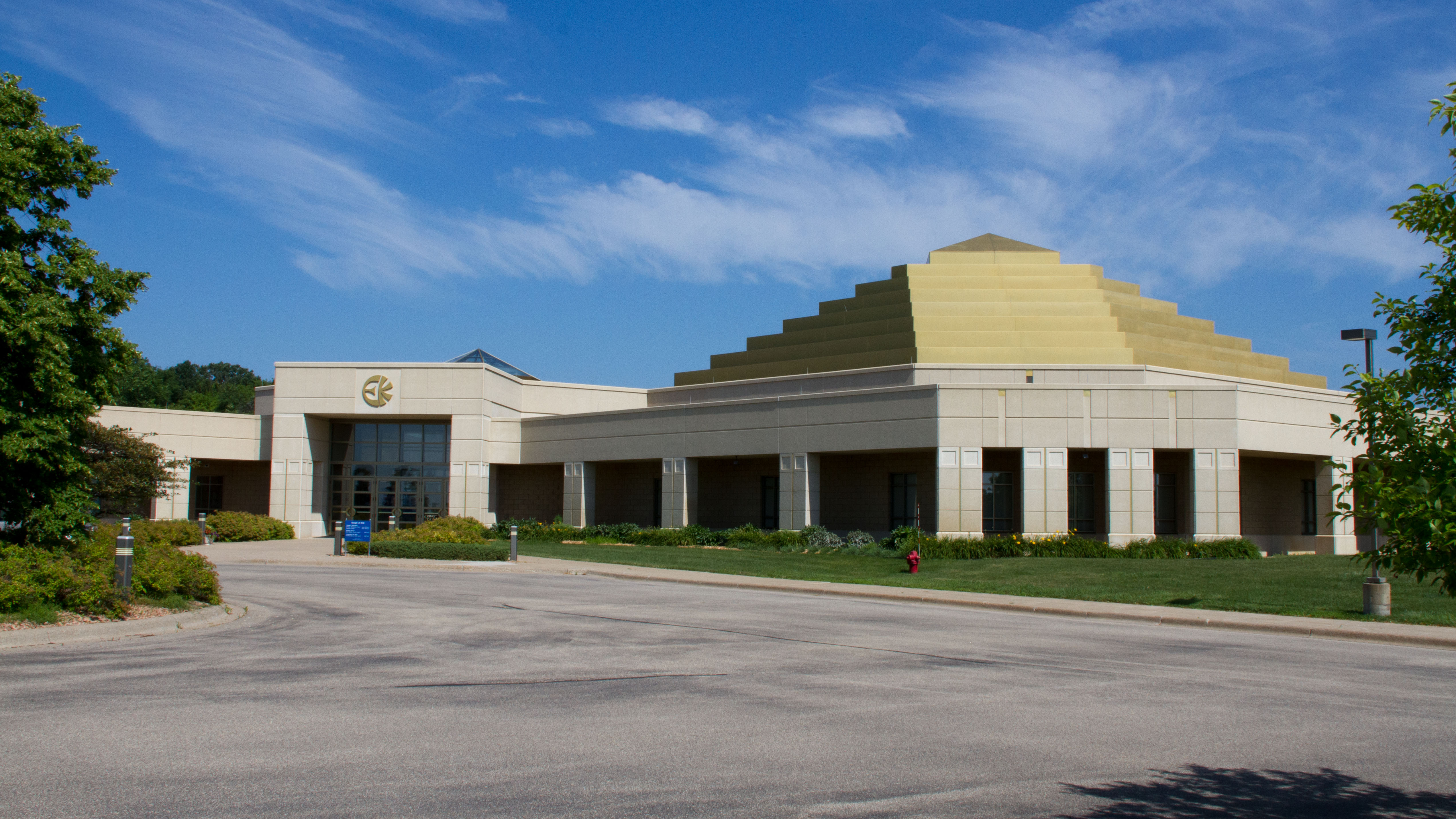 Temple of ECK at Eckankar's international headquarters are in Chanhassen, Minnesota, USA.